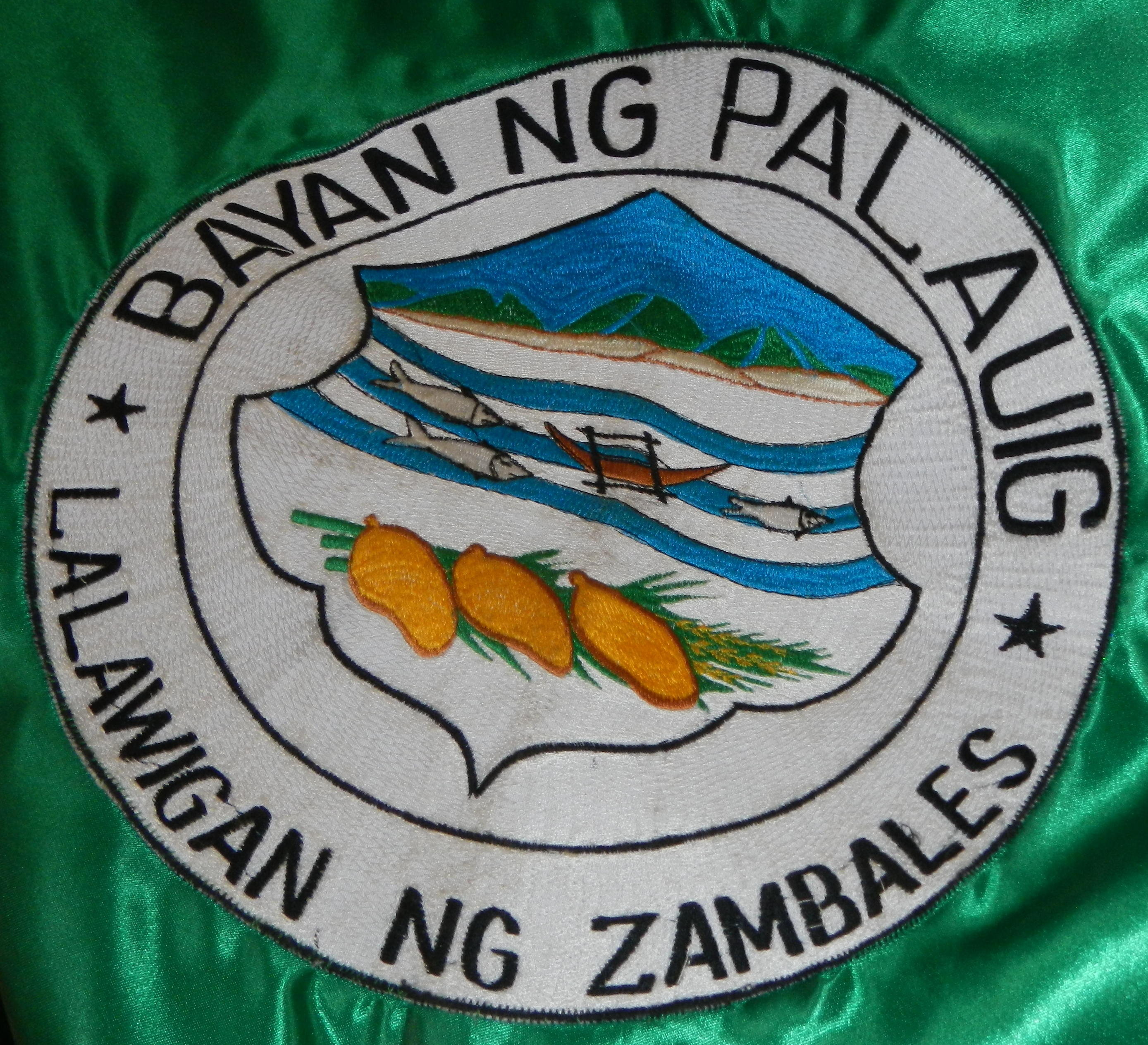 The great Flag Seal of Palauig, Zambales [1]